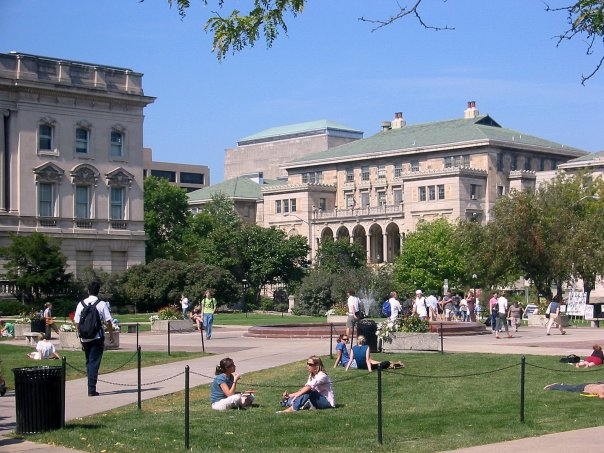 User vonbloompasha, owner of copyright